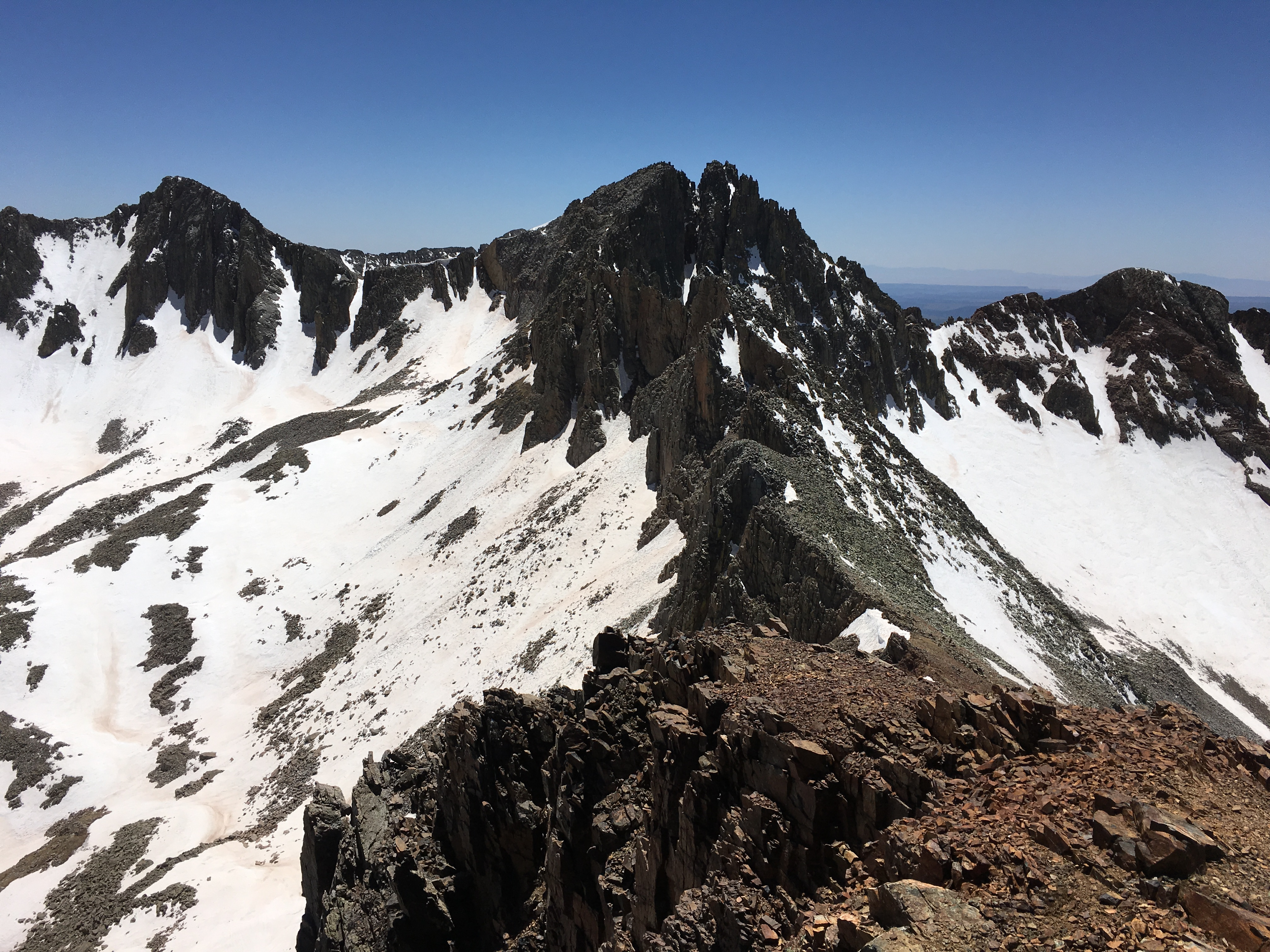 Lavender Peak as seen from the summit of Mt. Centennial